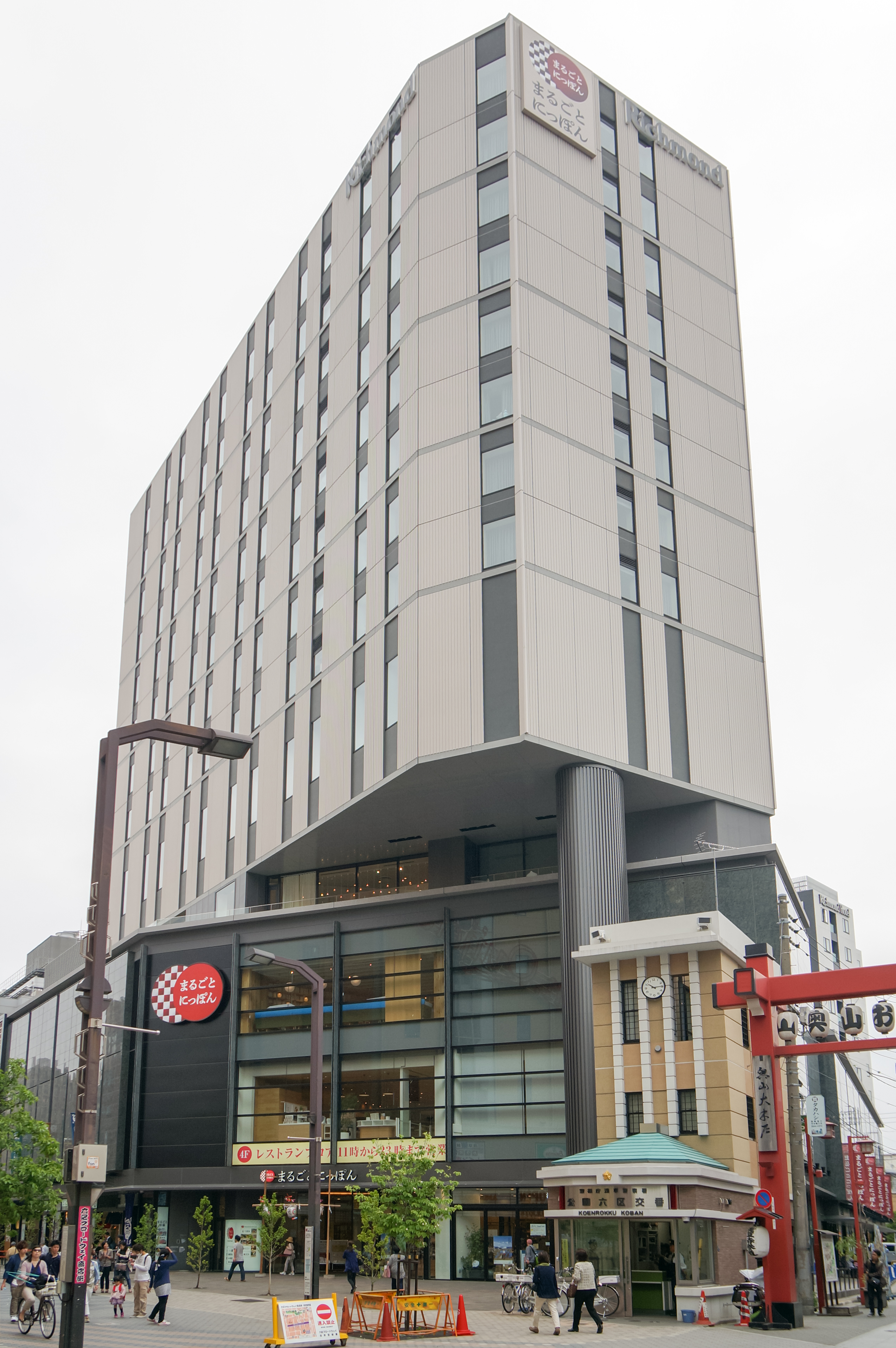 Photograph of the southwest side view of Tokyo Rakutenchi Asakusa Building in Taito, Tokyo, Japan.